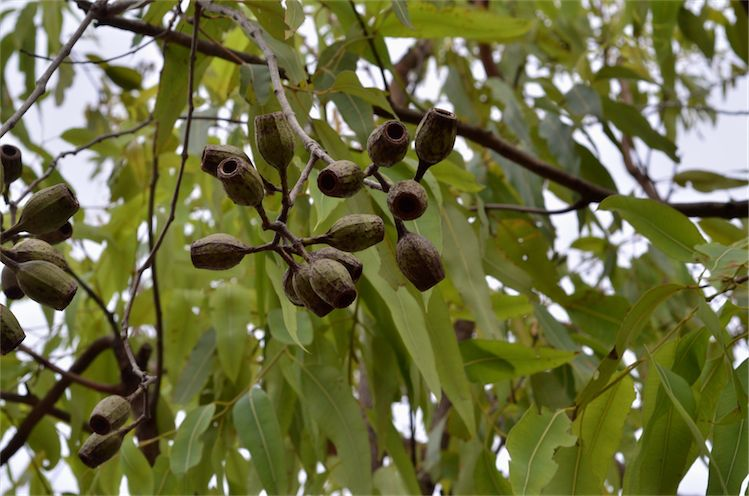 Fruit of Corymbia ptychocarpa, in the Emerald Botanic Gardens, Emerald, Queensland